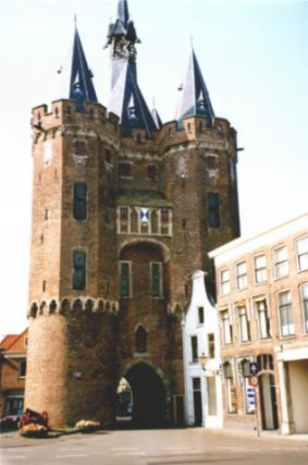 Sassenpoort, Zwolle